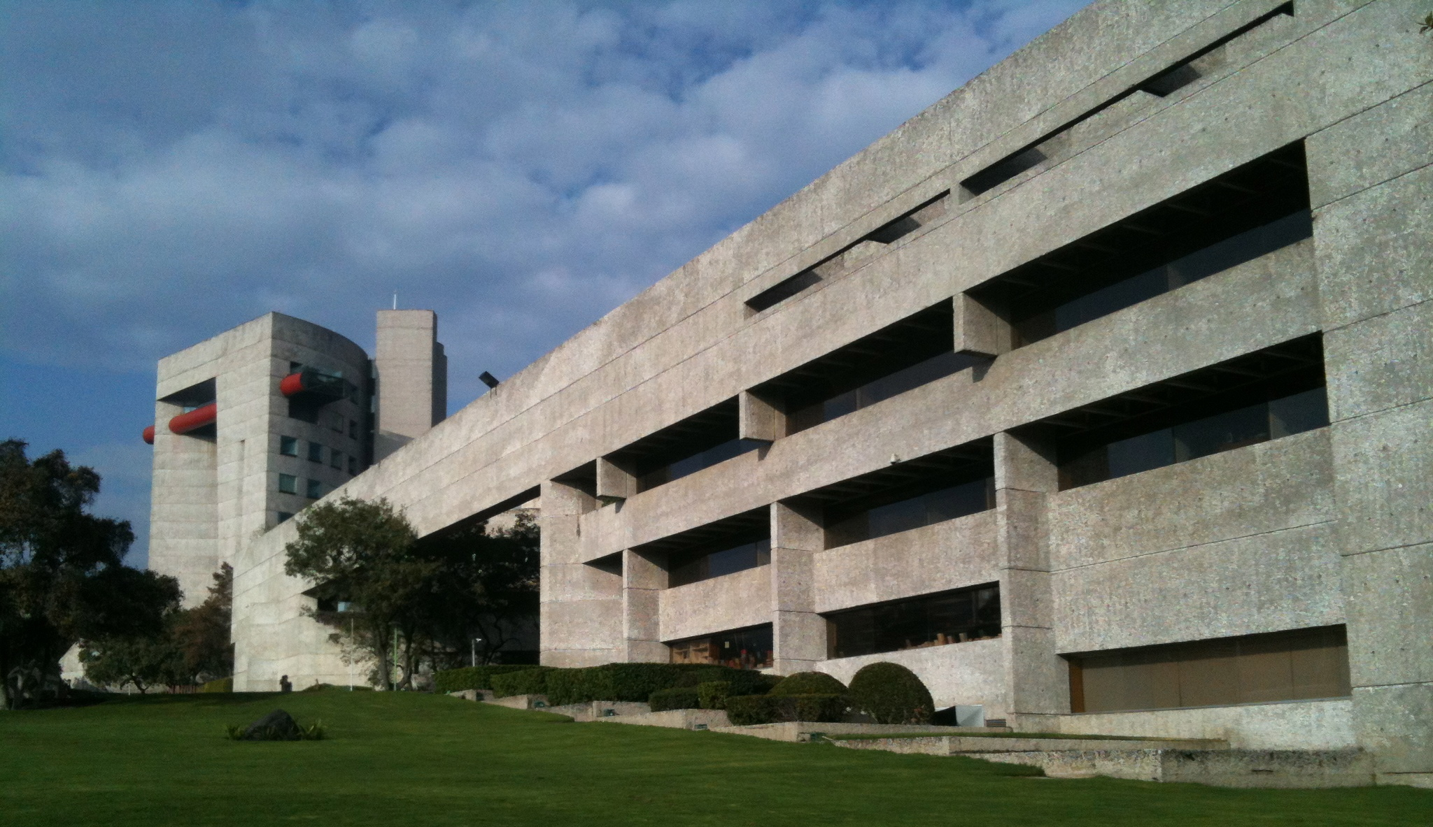 El Colegio de Mexico during a winter morning